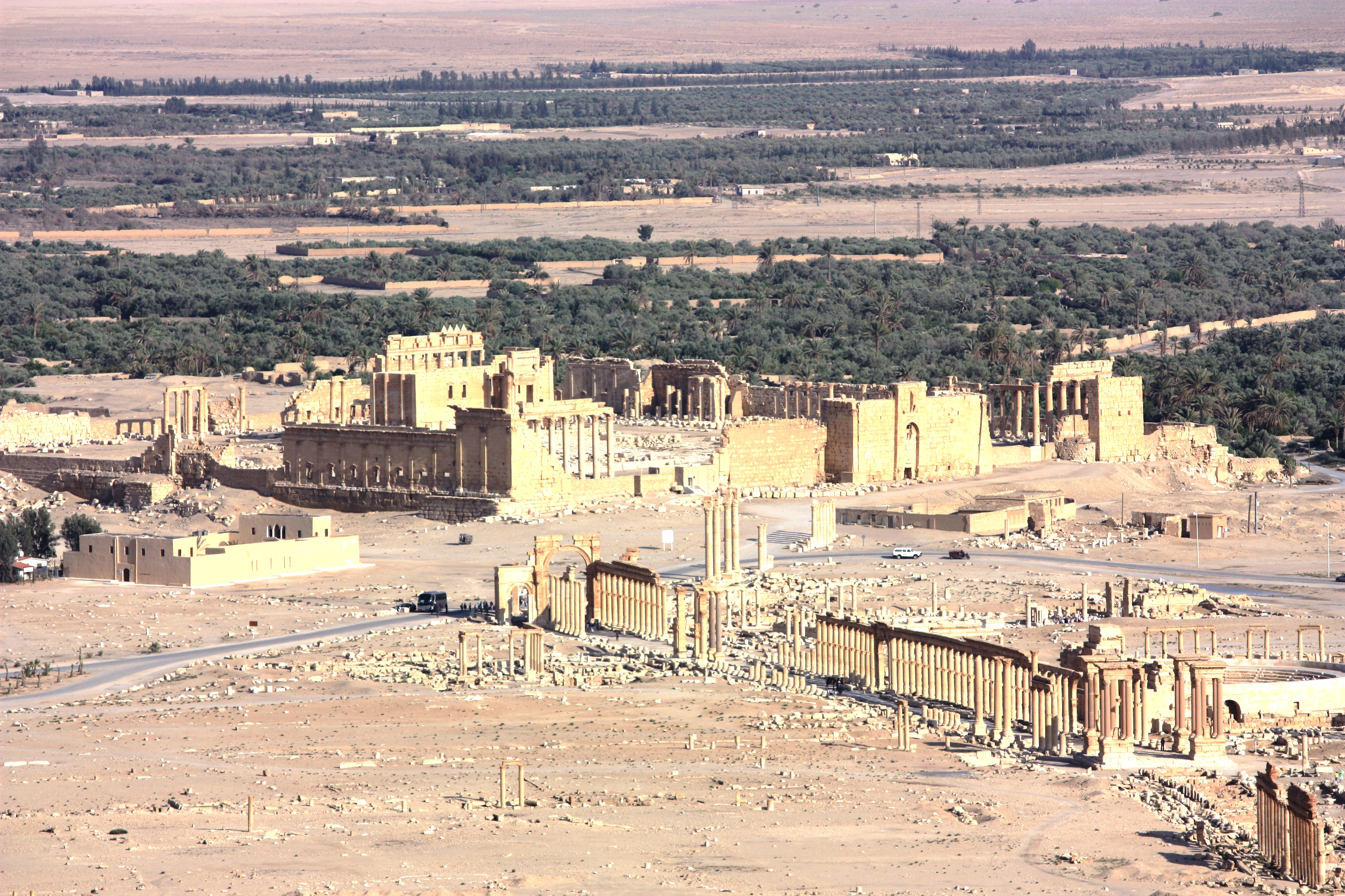 Palmyra, view from Qalaat Ibn Maan, Temple of Bel and colonnaded axis